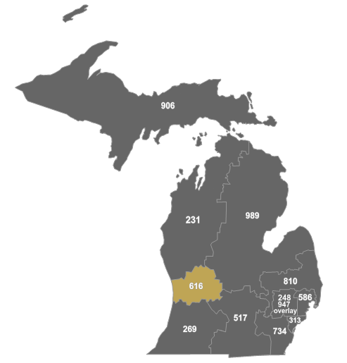 Area code map of Michigan highlighting the region covered by area code 616.